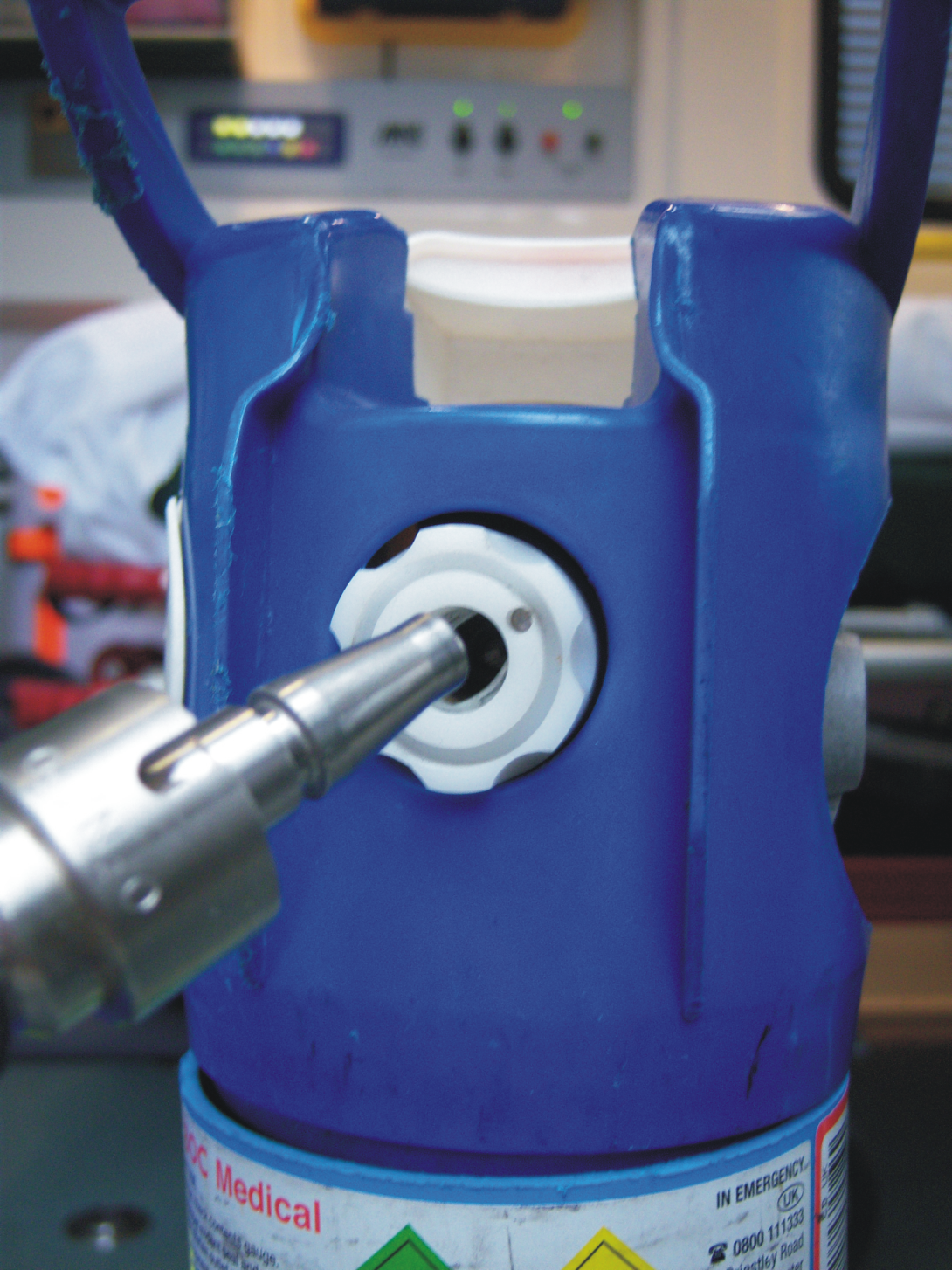 Image of Entonox cylinder and Schrader valve connector